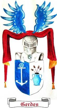 A Coat of Arms of the Gerdes family (note that there are still others)